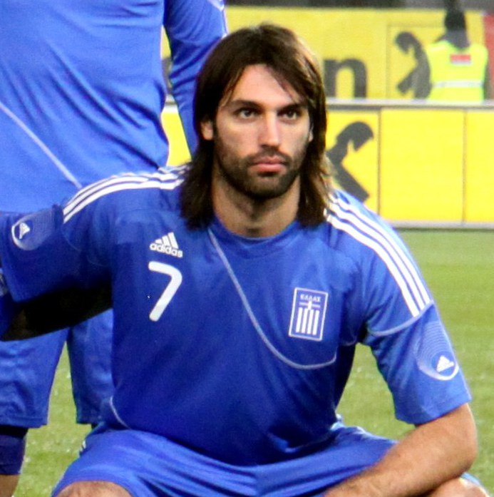 Greece national football team against the Austrian national football team (2:1)